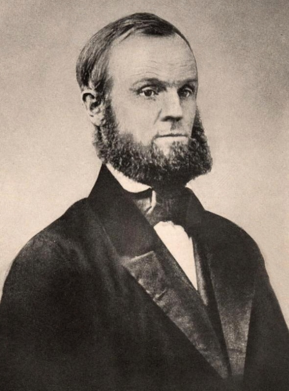 John Humphrey Noyes, (1811-1886) American utopian socialist. He founded the Oneida Community in 1848.